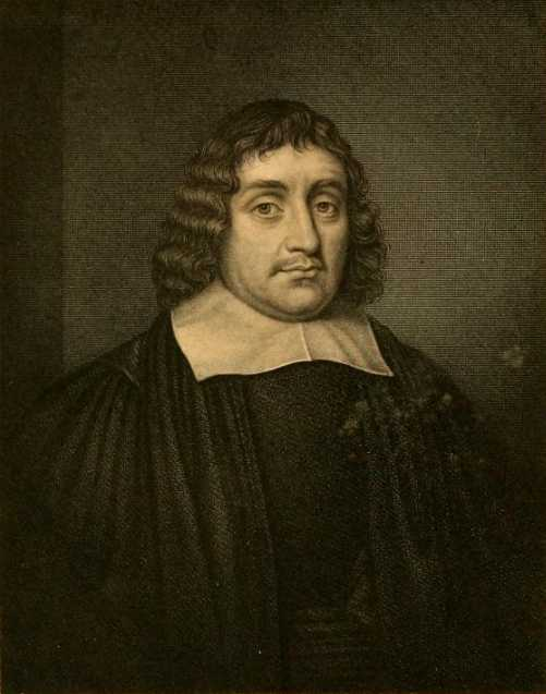 Portrait of Thomas Fuller (17th century)